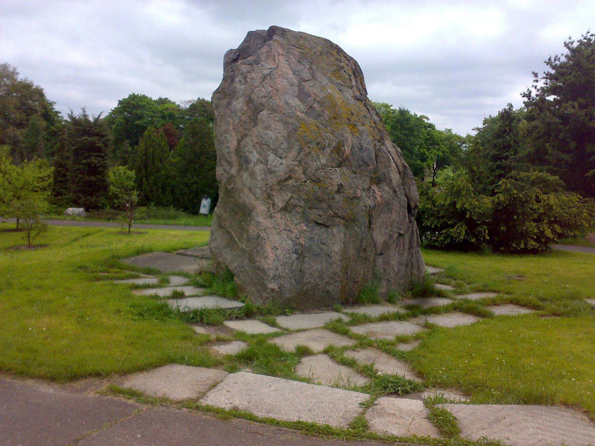 Poznan Botanical Garten. Great erratic.